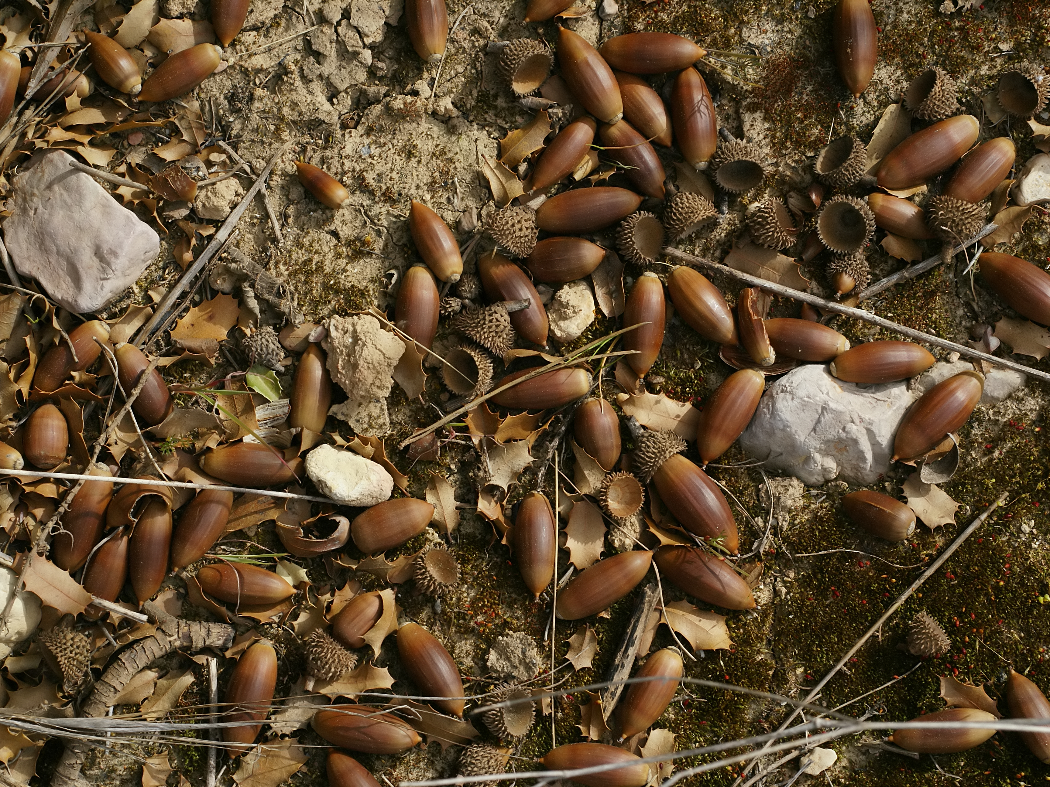 Acorns from a Kermes Oak near el Perelló, Catalonia, Spain.